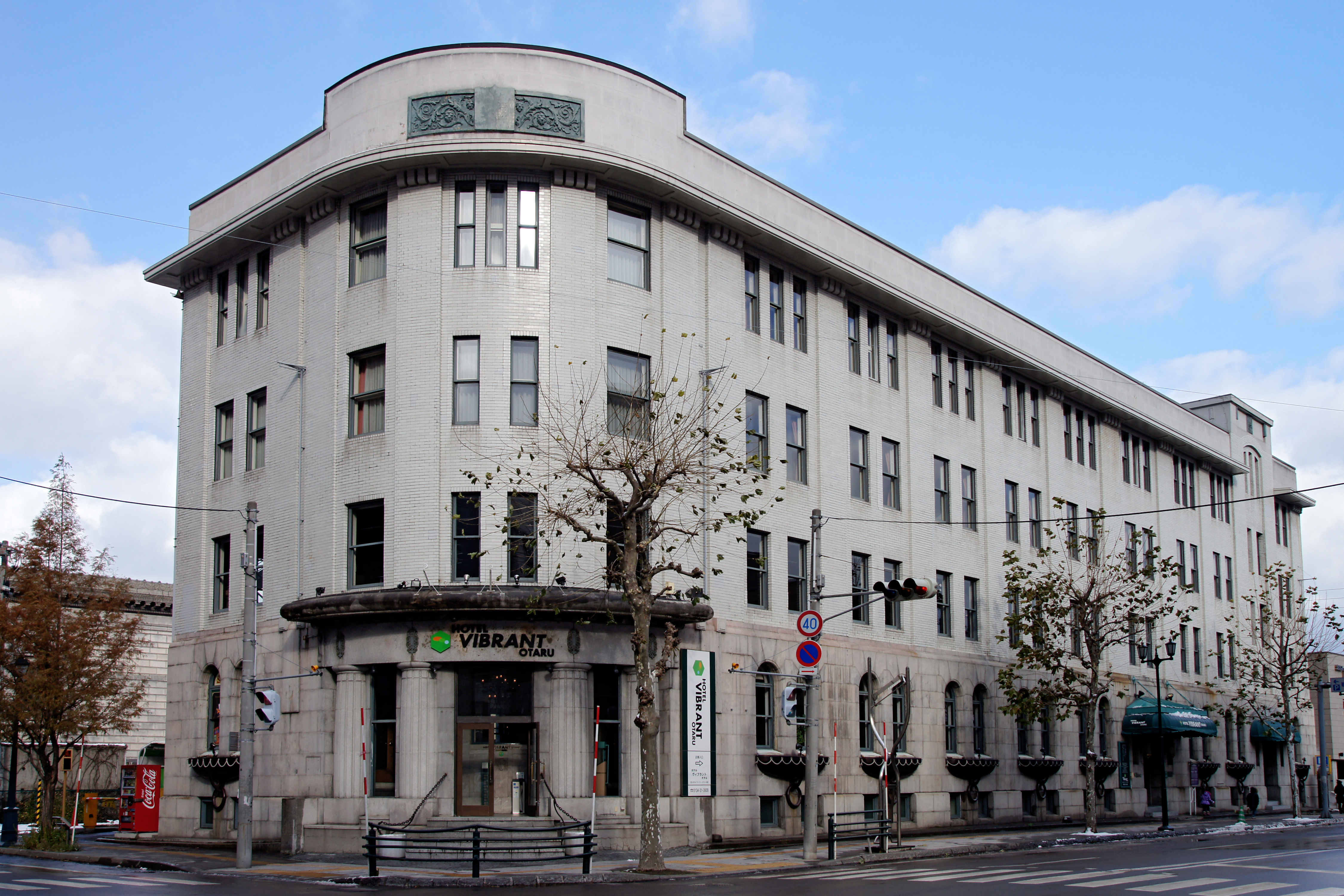 Former Hokkaido Takushoku Bank, Otaru Branch in Otaru, Hokkaido prefecture, Japan